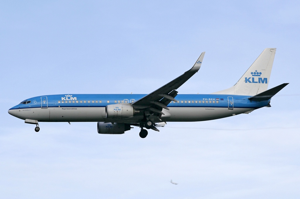 KLM Boeing 737-800 (PH-BXH "Goose")